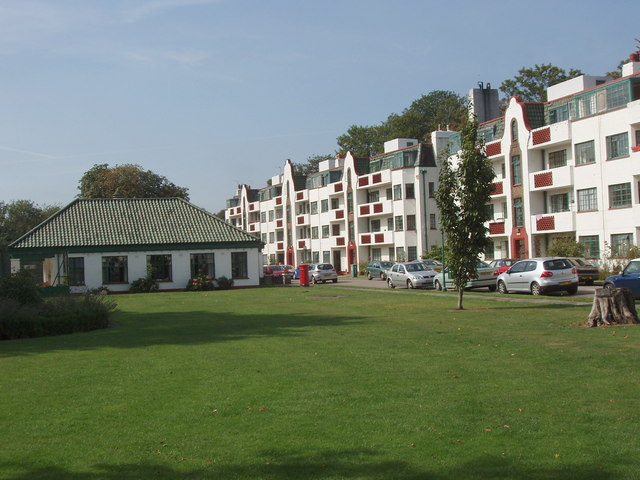 Ealing Village apartments and clubhouse. Ealing Village was built in 1934-6 as a private estate of 128 rented apartments. There are five art deco blocks in colonial Dutch style. The building on the left of the photo is the clubhouse available to the residents, most of whom now own their apartments. For other photos of the estate, all taken on a London Open House visit, see 251549, 251533 and 251540.